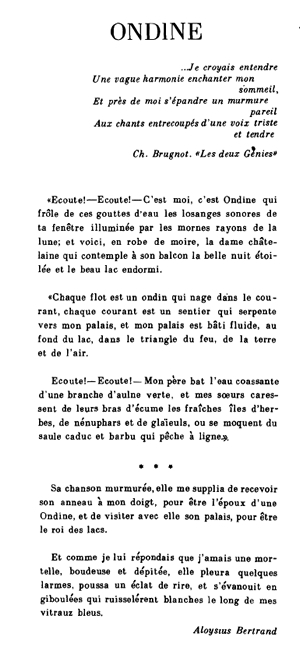 poem in music from Maurice Ravel